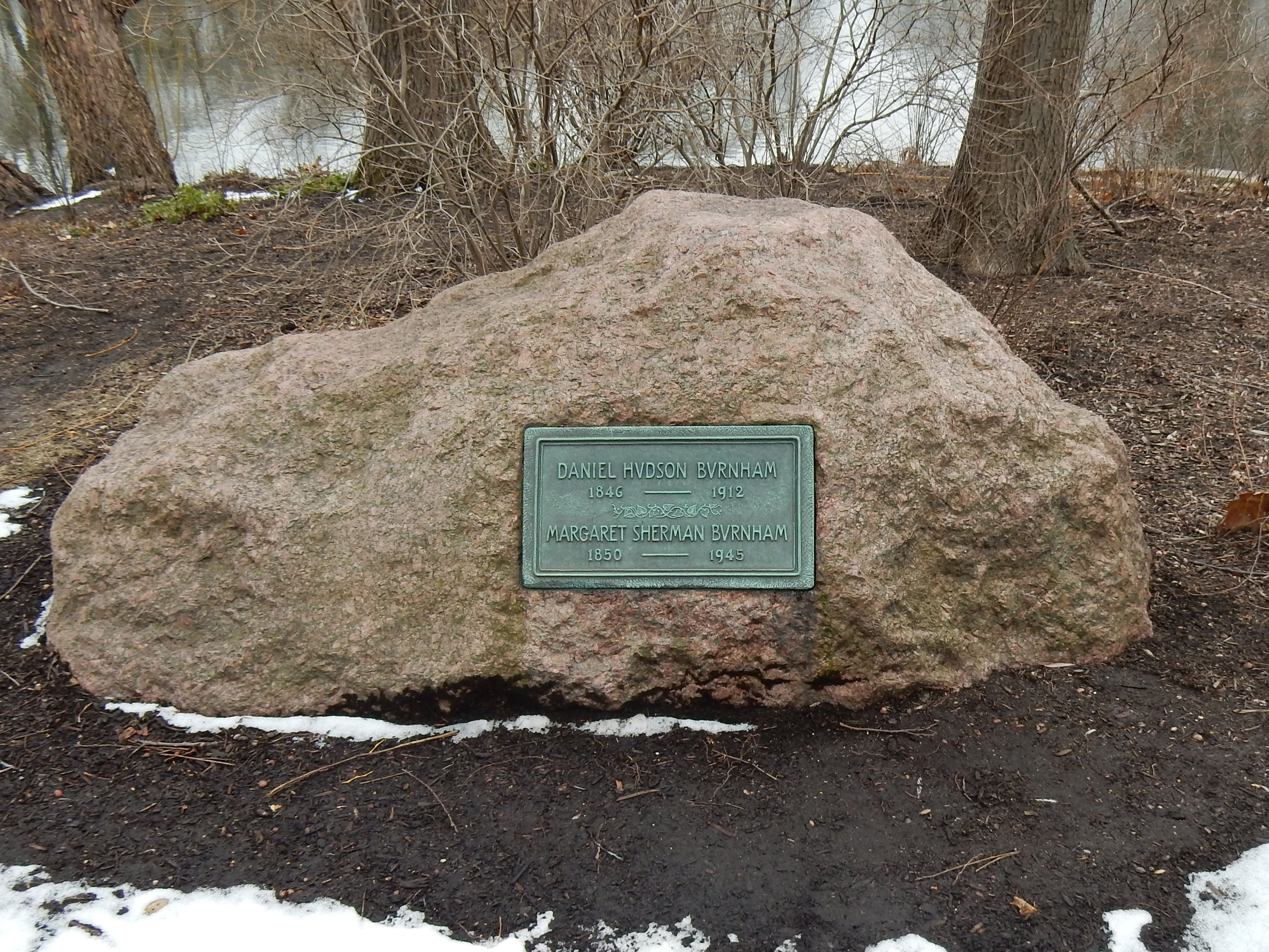 Daniel Burnham Tomb in Graceland Cemetery in Chicago